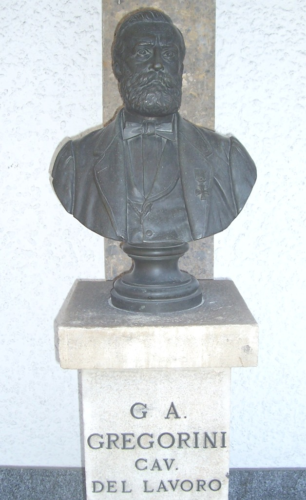 Giovanni Andrea Gregorini, industrial. Vezza d'Oglio, Val Camonica, Italy